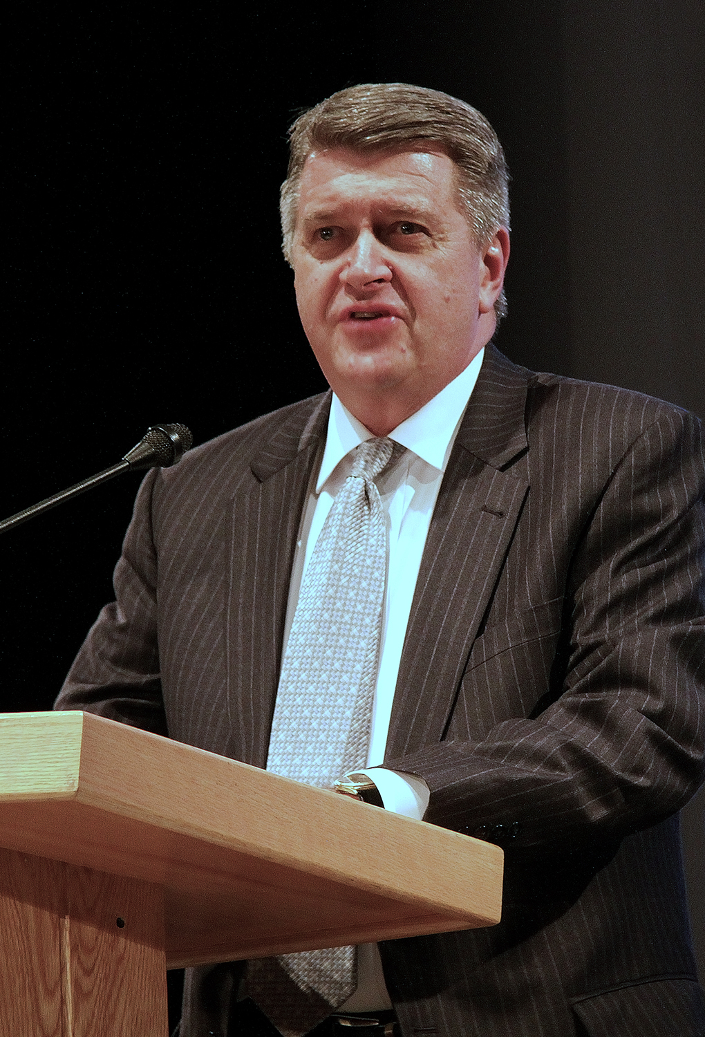 Brent L. Top giving presentation at BYU Easter Conference, March 29, 2013.